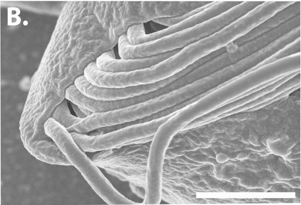 Morphology of Cthulhu macrofasciculumque by differential interference contrast light microscopy (LM) and scanning electron microscopy (SEM): (B) detailed view of the flagellar emergence.